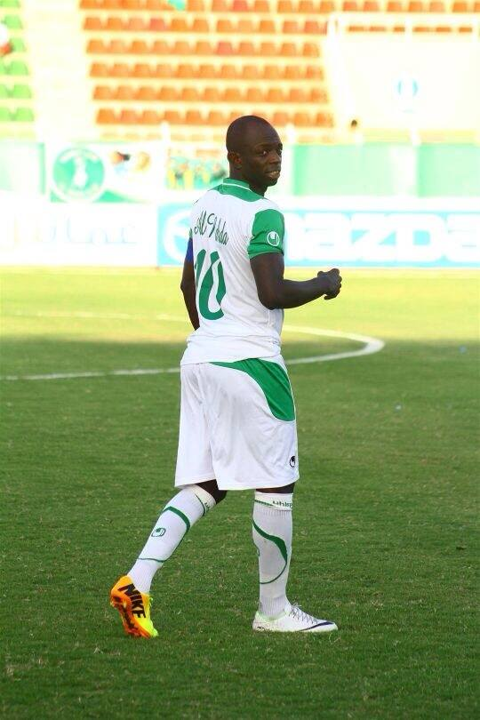 Mohamed Ablaye Gaye in a match against Sohar SC. 13 September 2013 Sohar Sports Complex Photographer email id